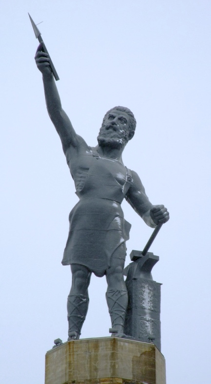 Vulcan is the largest cast iron statue in the world. Located in Birmingham, Alabama, it stands 56 feet tall and weighs 60 tons. It was created by Guiseppe Moretti in 1904.Image of the front of Vulcan, the largest cast iron statue in the world, located in Birmingham, AL, lightly dusted with the first day of snow, January 19, 2008.